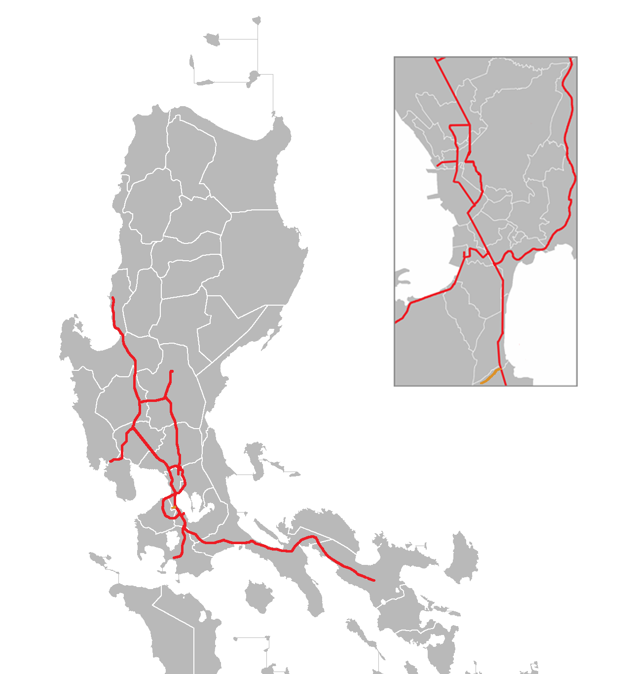 A map of MCX (orange)